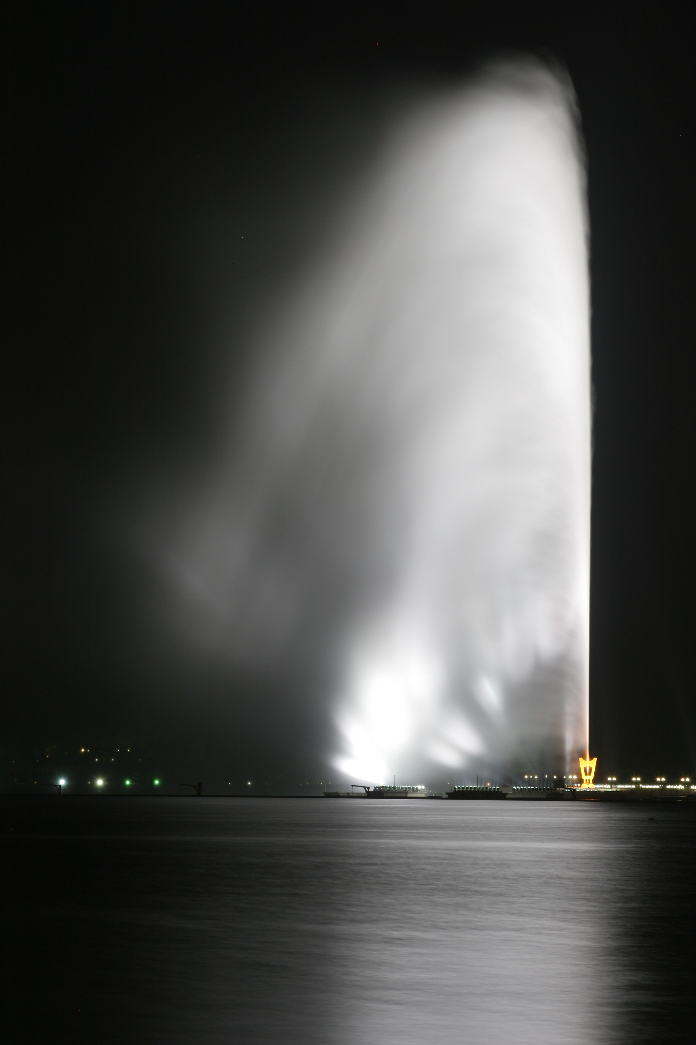 “King Fahd's Fountain in Jeddah is the tallest fountain in the world, with water achieving a maximum height of 312m. Each of the three massive pumps deliver 625 litres of water per second, and the water is propelled at an [...] speed of 375 km/h.”